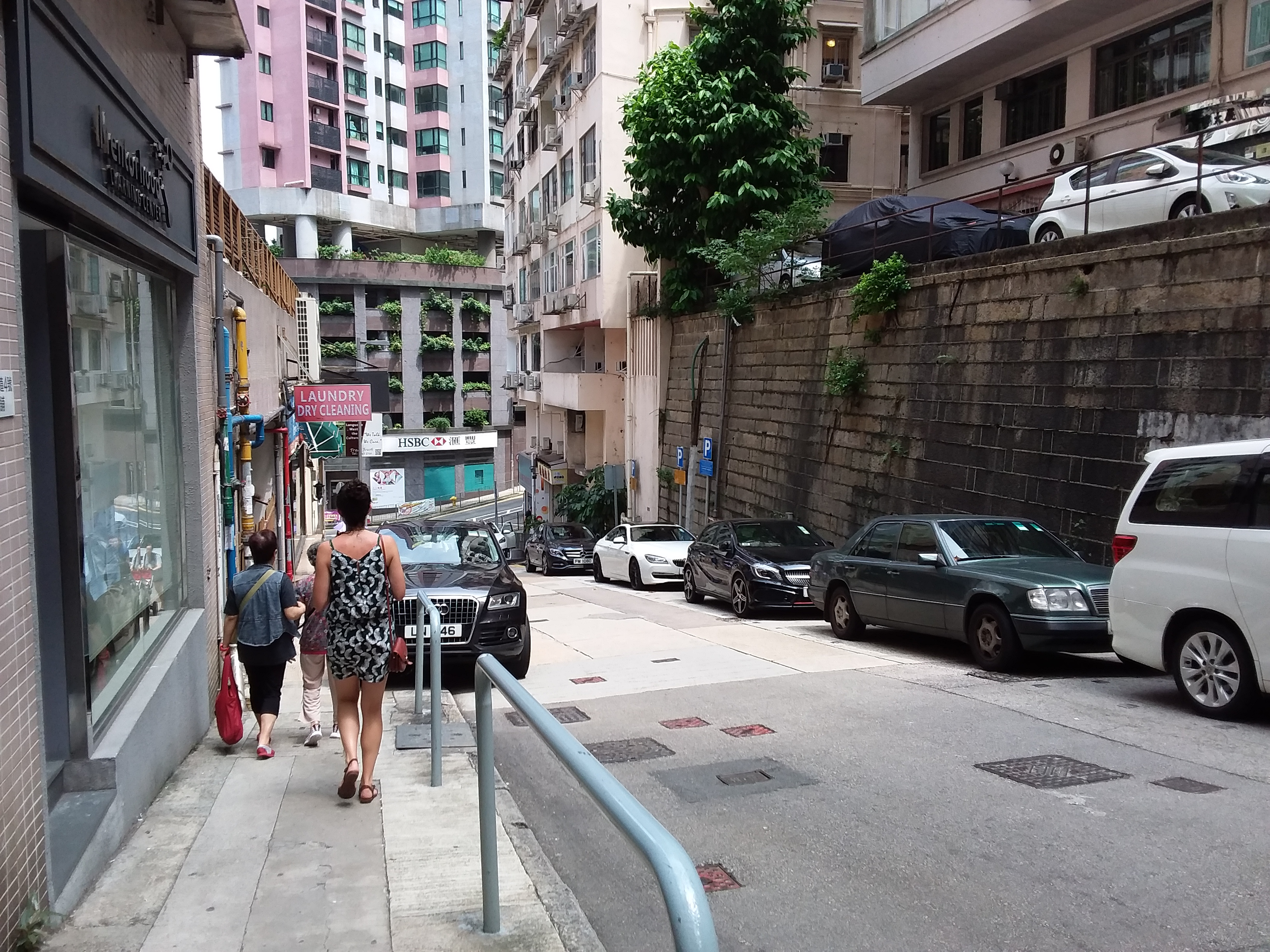 HK Mid-levels 巴丙頓道 Babington Path in September 2018